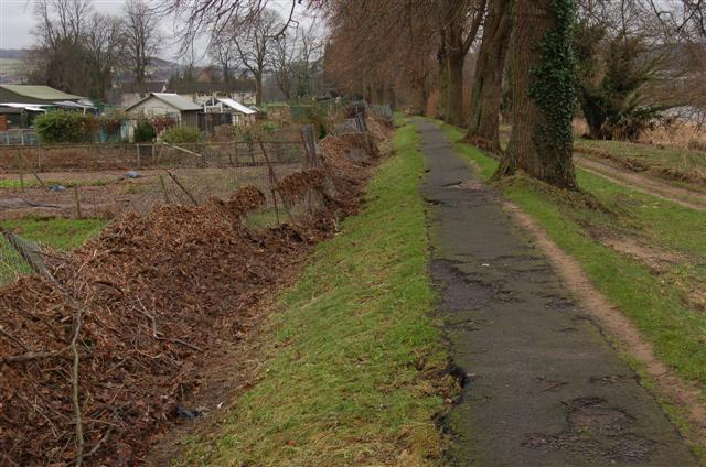 Moncreiffe Island, Perth, Scotland. This small embankment and line of trees is a flood defence against The River Tay on Moncreiffe Island,it doesn't always work as can be seen by the amount of debris deposited against the fence of the allotments belonging to The Perth Working Men's Garden Association.